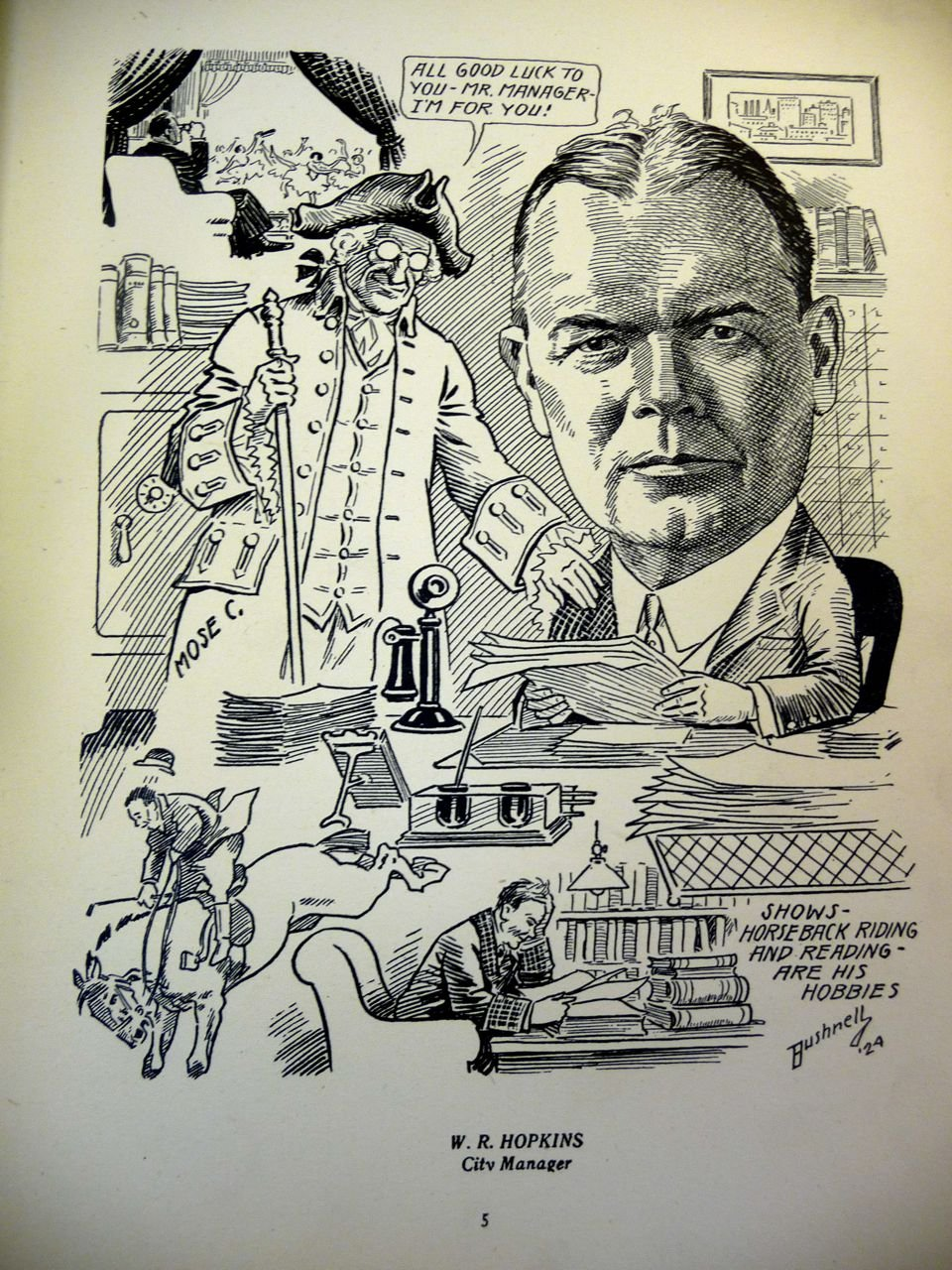 William R. Hopkins, caricatured in 1924 by E. A. Bushnell